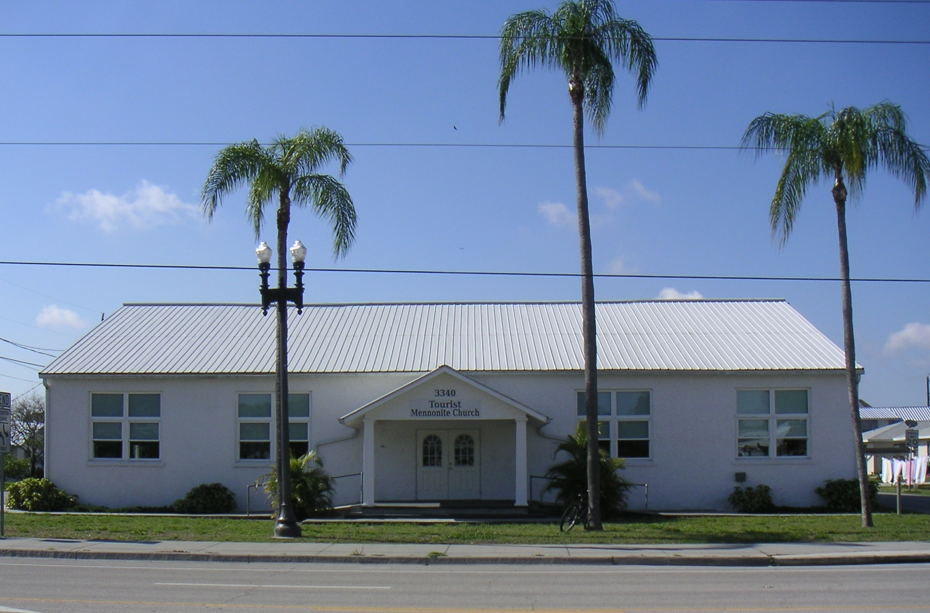 Tourist Mennonite Church, 3340 Bahia Vista Avenue, Pinecraft (Sarasota), Florida, 4/2/2012